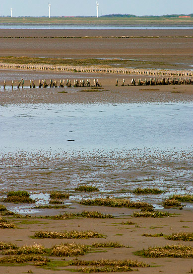 The Wadden Sea view - from the dam at the island Rømø, Denmark